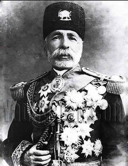 Mahmoud Alaolmol Diba